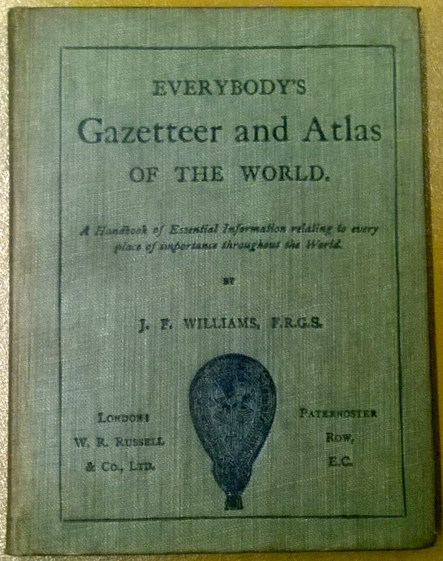 Everybody's Gazetteer and Atlas of the World by John Francon Williams, publ. W.R. Russell & Co., London EC1, 1900